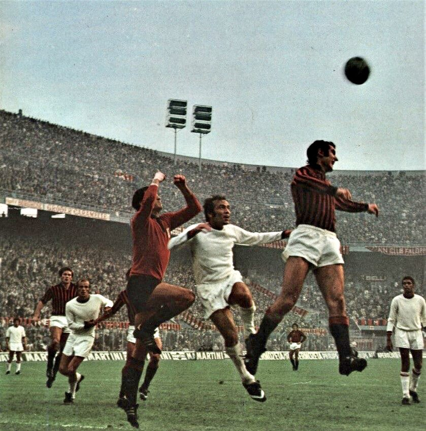 Milan (Italy), San Siro, November 14, 1971. Milan A.C. — Cagliari Calcio 0-0, Matchday 6 of the Italian Championship 1971–72 Serie A: you can recognize Cagliari's goalkeeper Enrico Albertosi (in red jersey) and Milan's attacking midfielder Alberto "Albertino" Bigon (in the foreground).